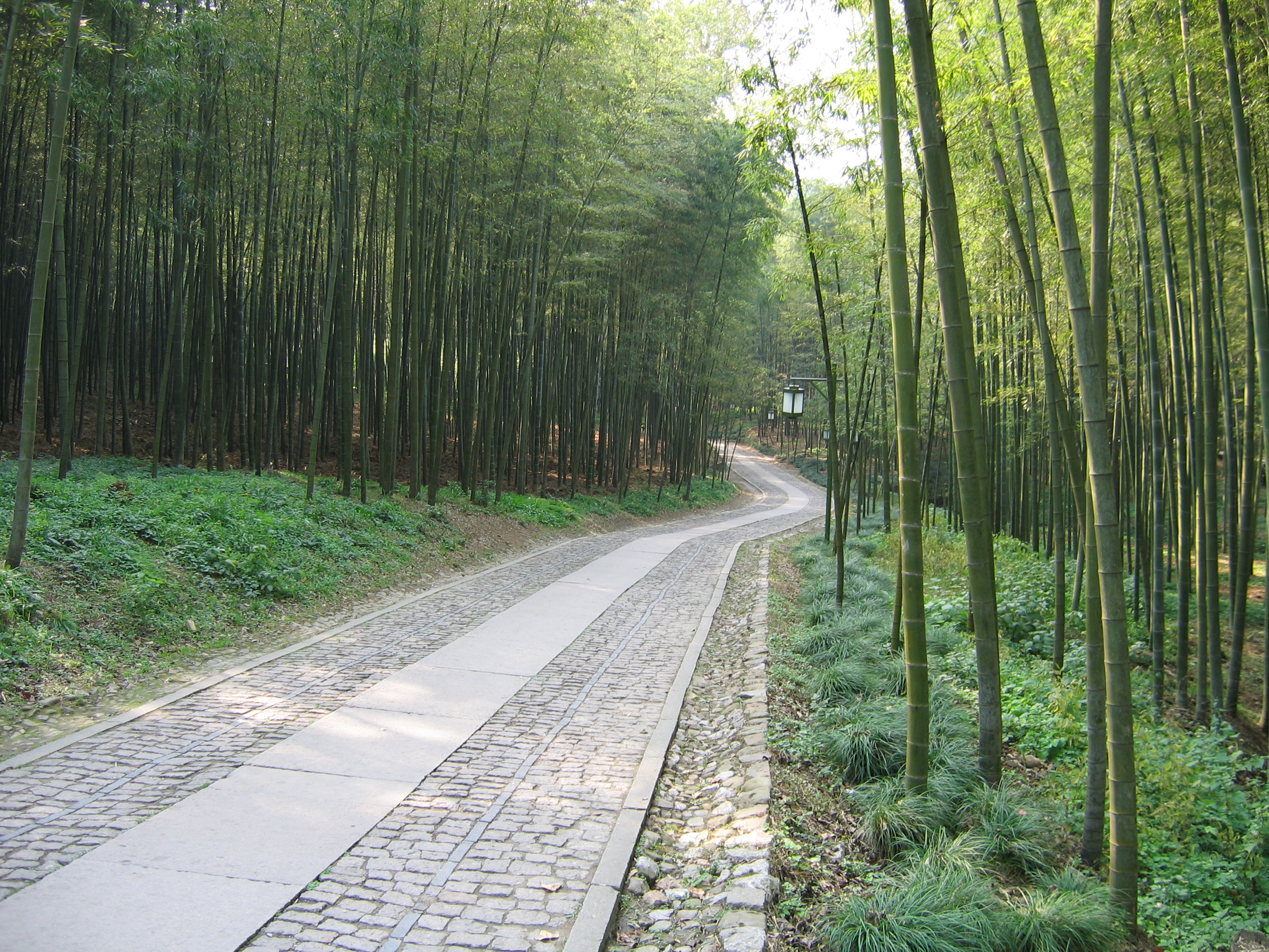 China Hangzhou Bamboo Lined Path at Yunqi(云栖竹径)